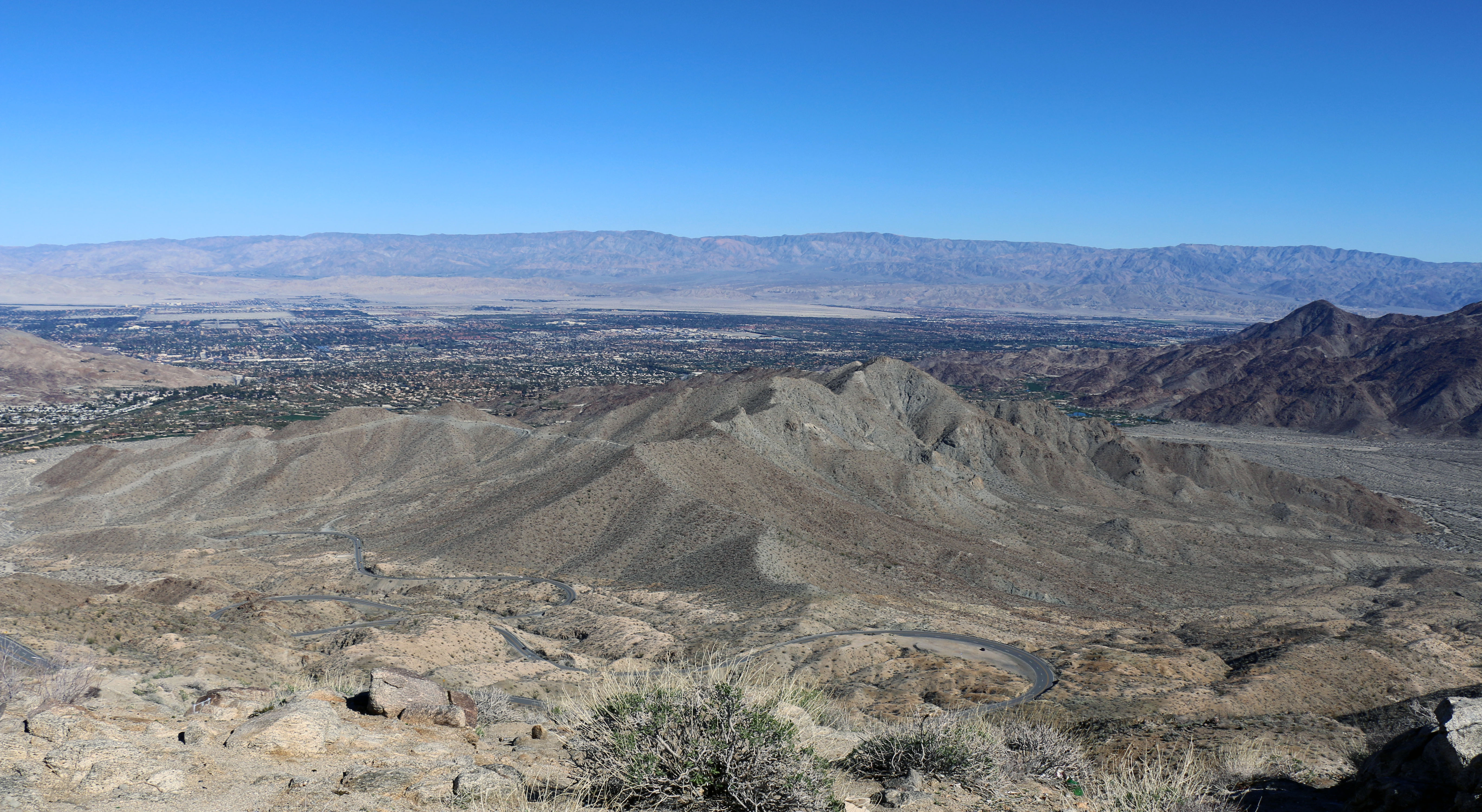 Photo by Joanna Gilkeson/USFWS.